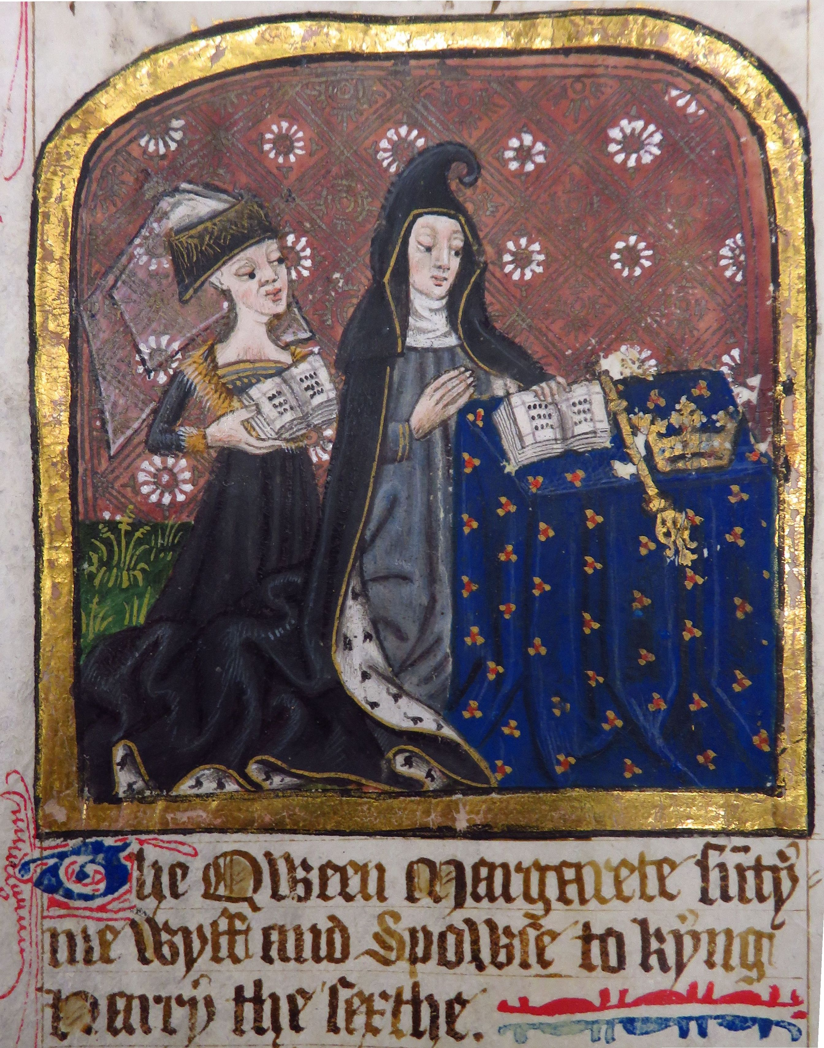 Illumination from the Books of the Skinners Company. A. D. 1422 The illuminated representation of Queen Margaret of Anjou, wife of King Henry VI, here reproduced, is entered in the roll of the fraternity of Our Lady under date XV year of King Edward IV (A.D. 1475)...